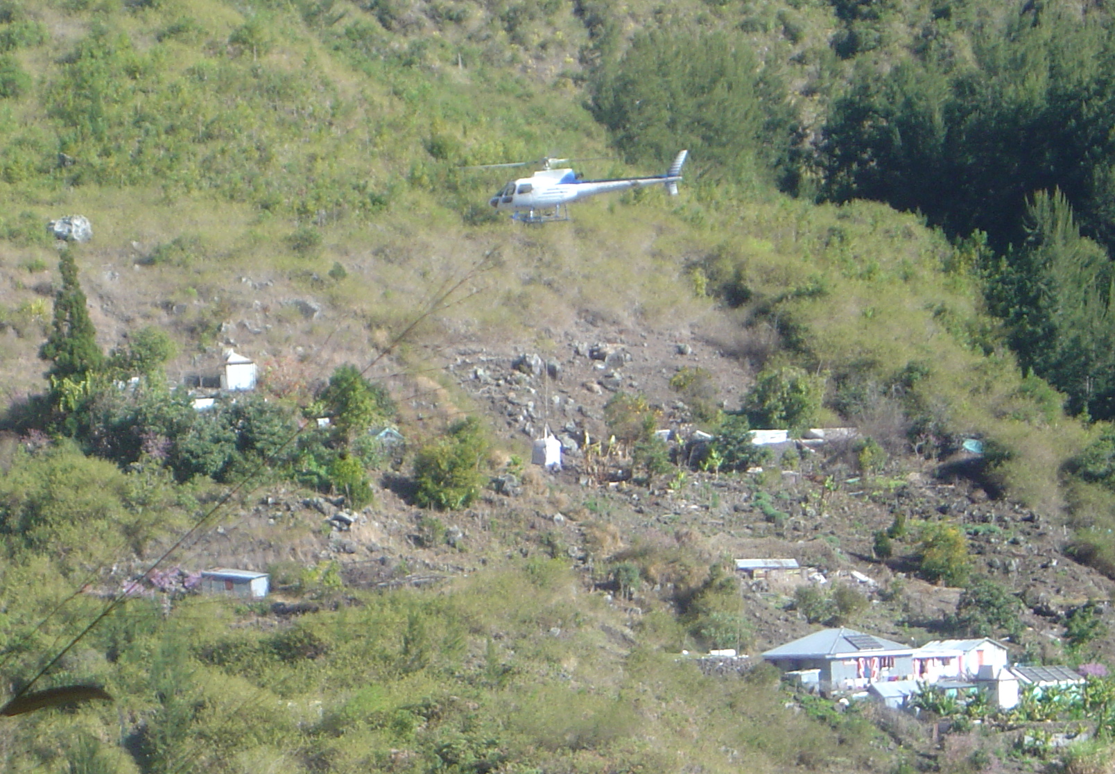 Helicopter delivering goods for construction work in Roche Plate, Cirque de Mafate, Réunion